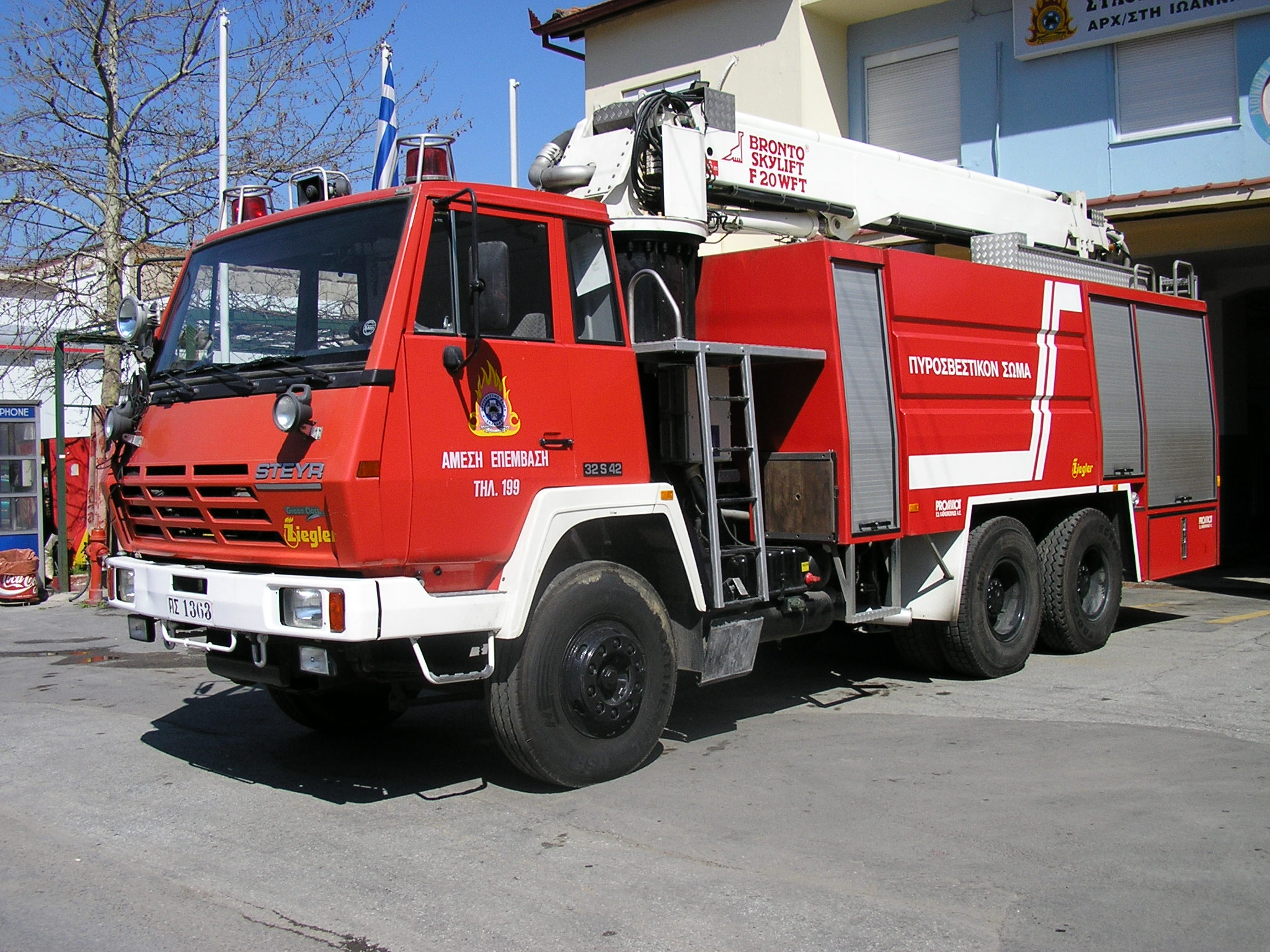 Vehicle of the Fire Service of Greece.